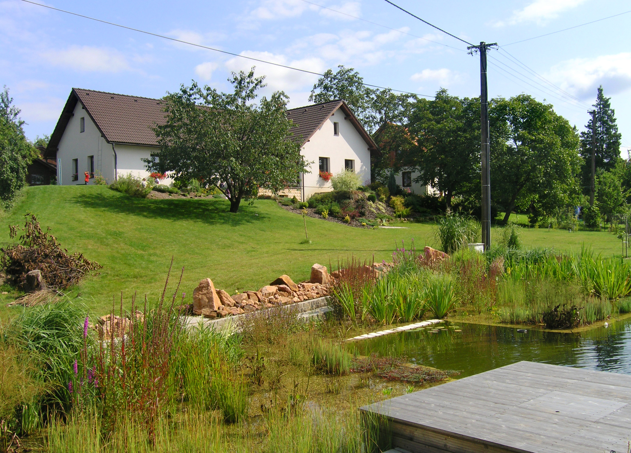 Bukovina village, part of Turnov, Czech Republic